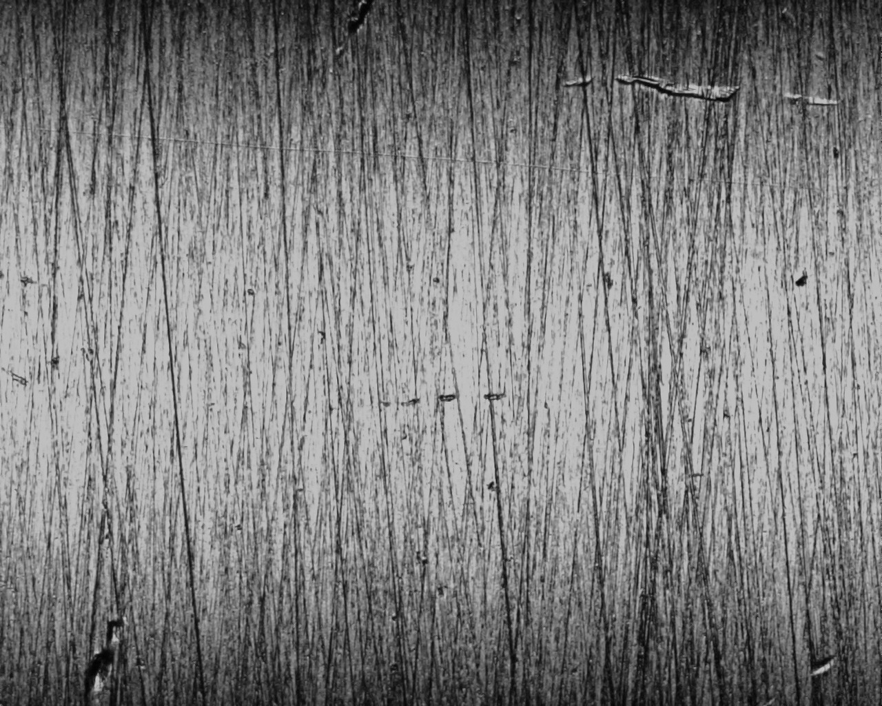 Photo of a honed surfaces, showing a cross-hatched pattern.